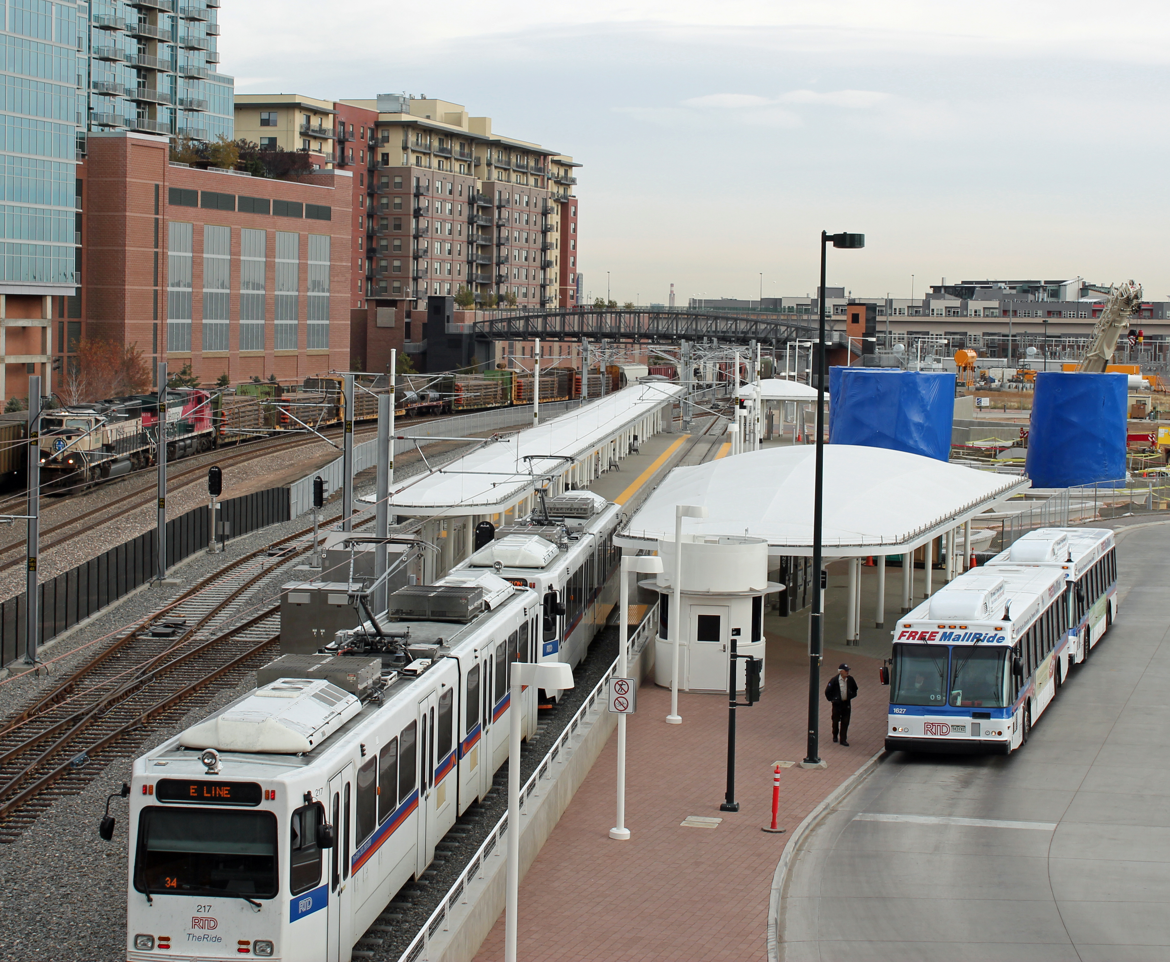 The re-located light rail station at Denver's Union Station. In 2011, the station was moved west along the railroad tracks as part of the Denver Union Station reconstruction.